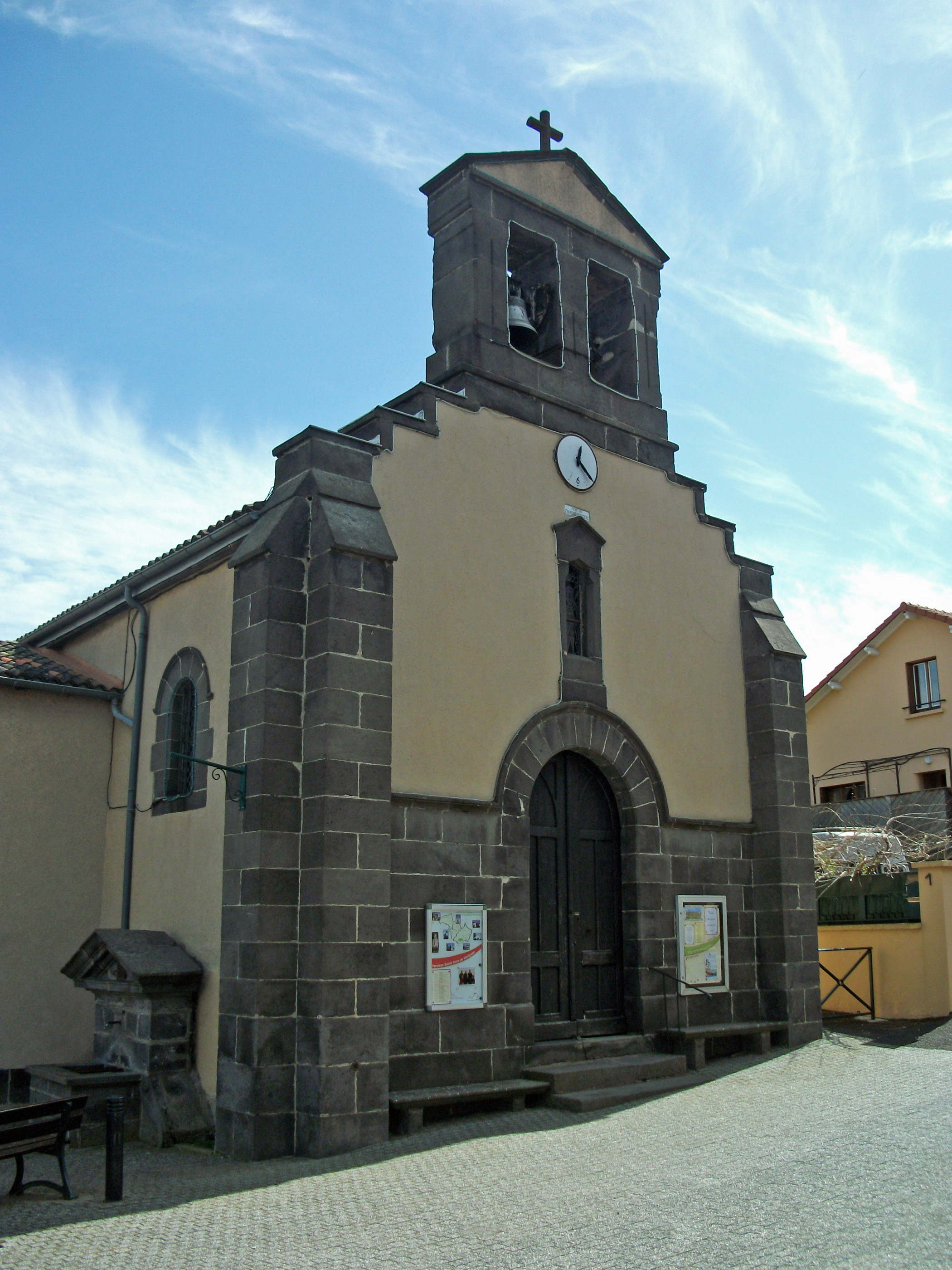 Durtol's church